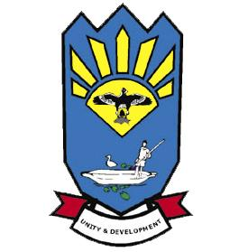 Coat of arms of Rundu, Namibia